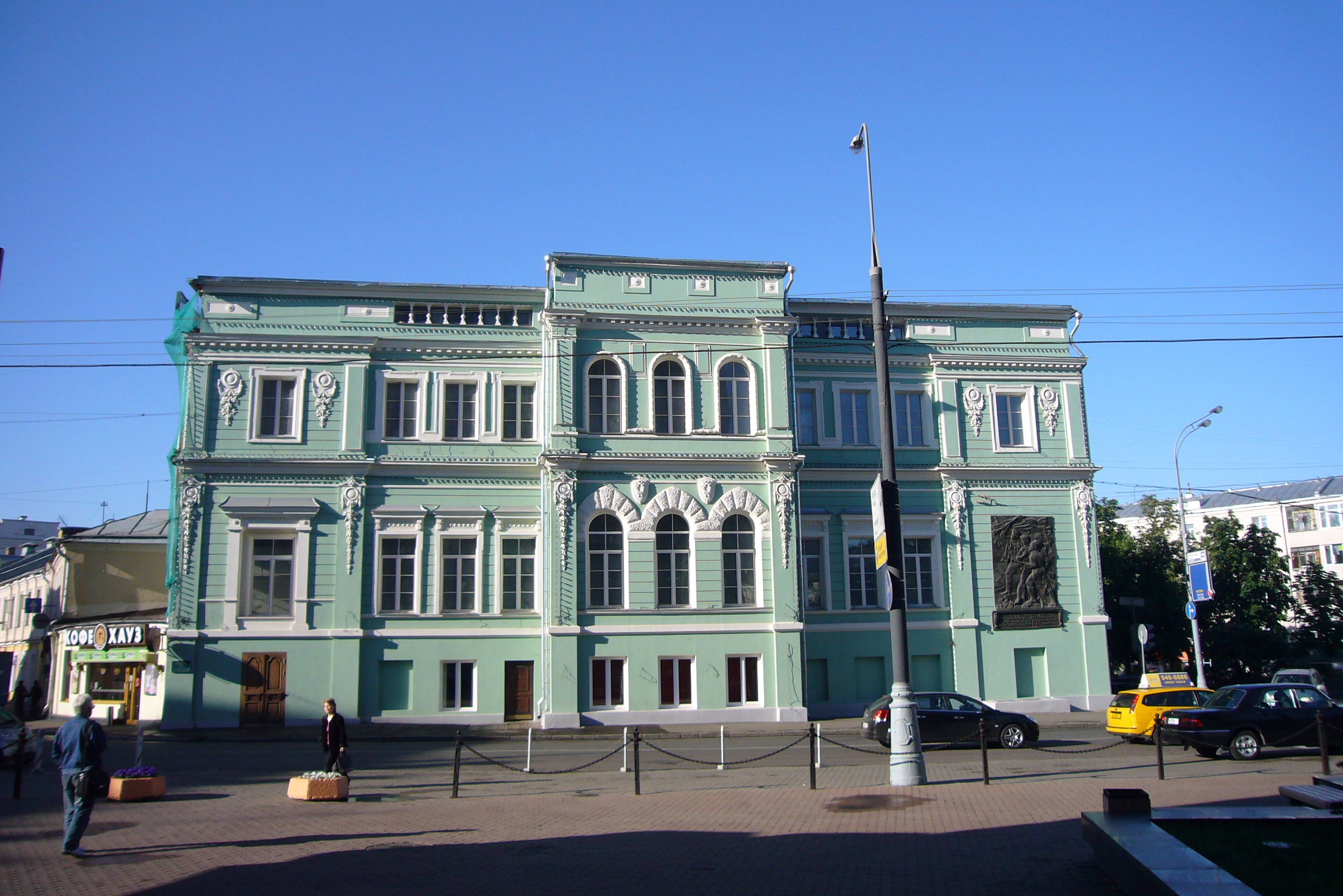 Building at 23/9 Bolshaya Nikitskaya Street, Moscow.